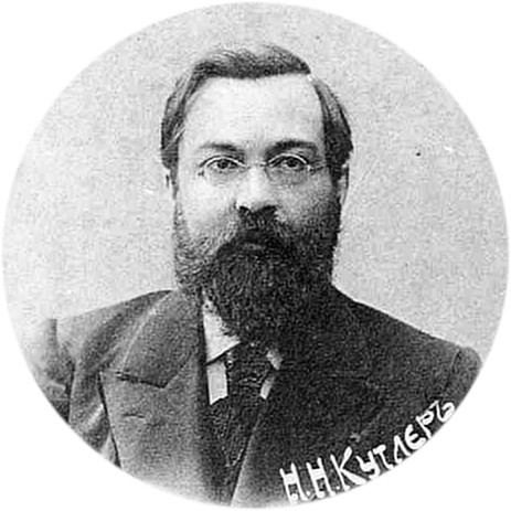 Nikolay Kutler